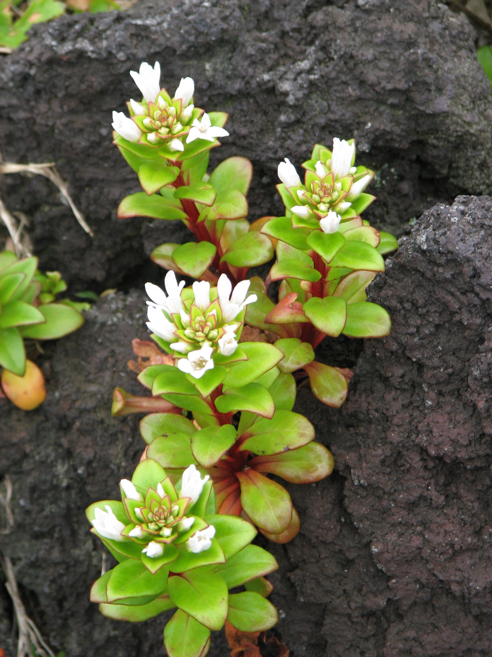 Lysimachia mauritiana at Hachijo is. Tokyo Japan.